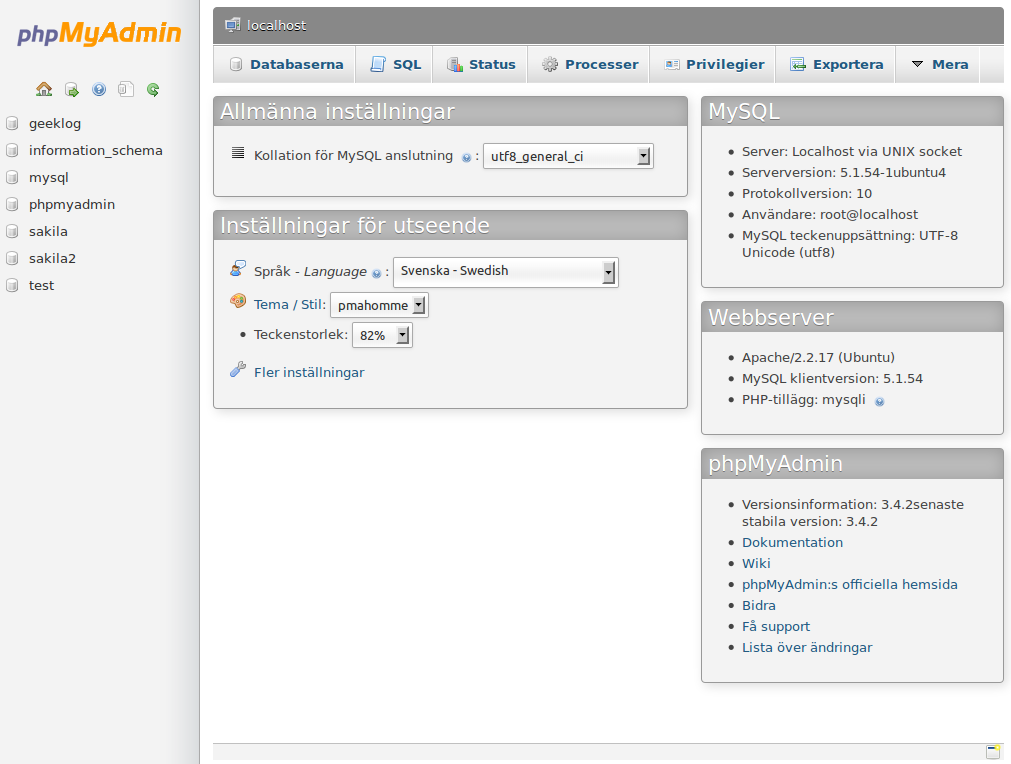 Screenshot of the main page of phpMyAdmin version 3.4.2